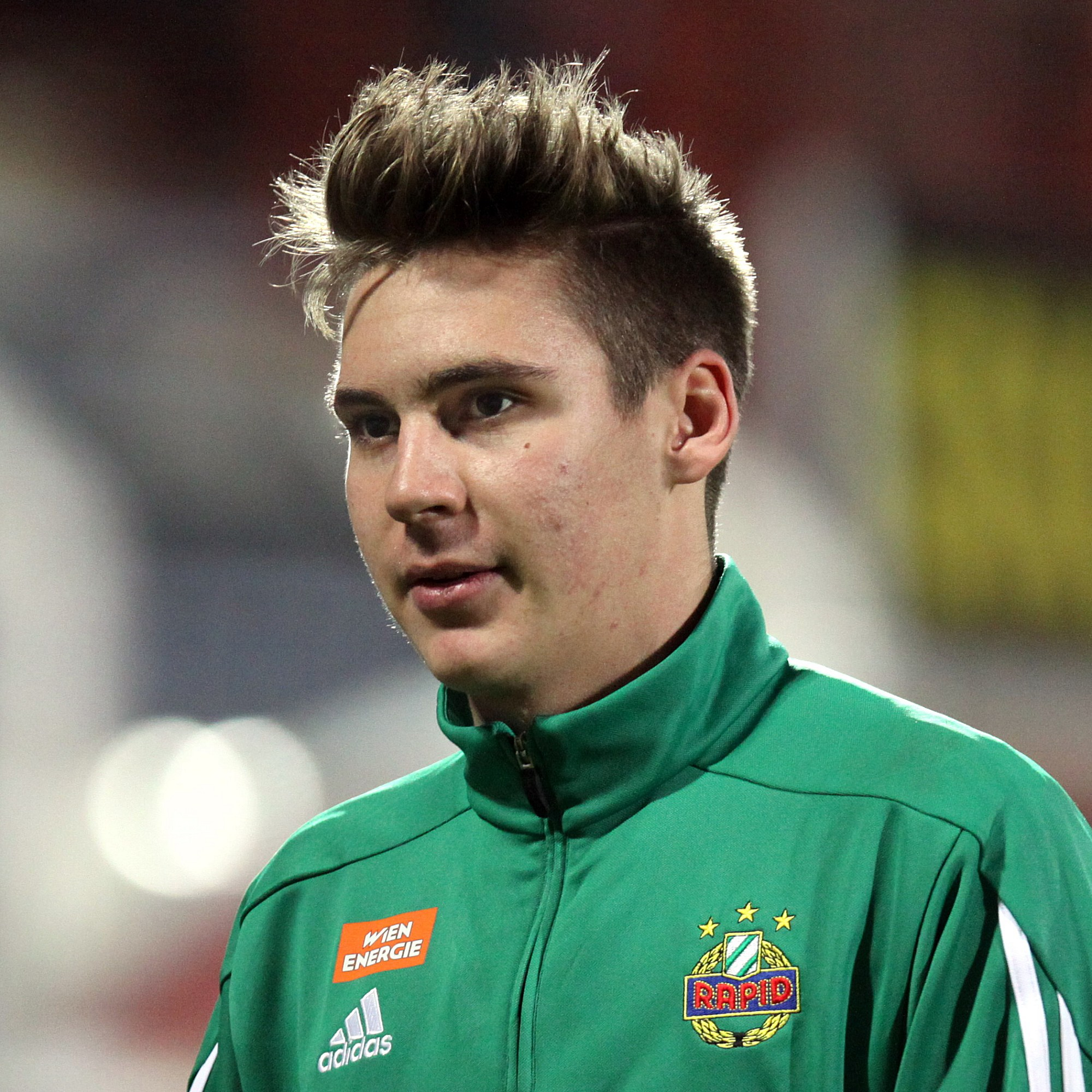 Match of the Austrian Football Bundesliga – FC Admira Wacker Mödling (red shirts) vs. SK Rapid Wien (white shirts) 2-1 (0-1) on 2015-12-02 in Bundesstadion Sudstadt – The photo shows Maximilian Wöber (SK Rapid Wien).